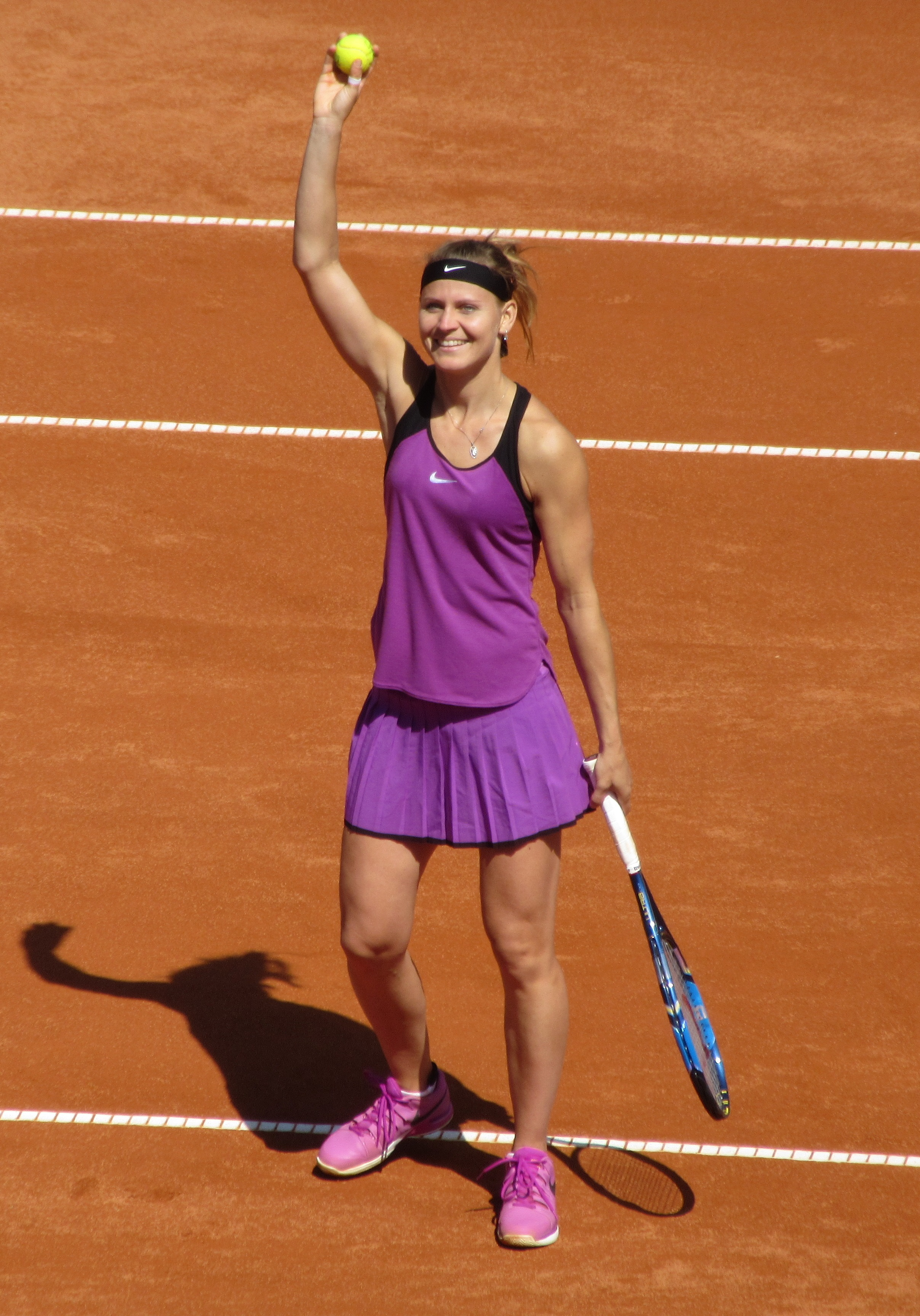 Lucie Šafářová after semifinal at 2016 J&T Banka Prague Open